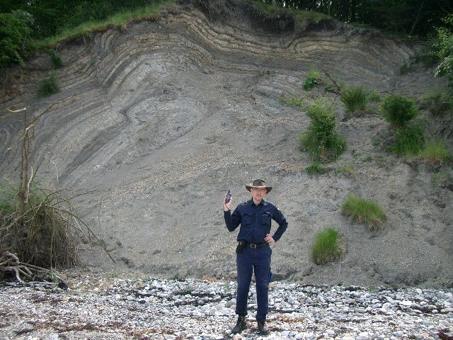 An earthcache, a special type of geocache, where the object is to reach a particular geological or geographical feature of exceptional note. This picture is from the danish geocache at Æbelø, where a unique formation of plastic clay can be observed.